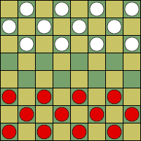 Starting position for English draughts. The colours are based on the American Checker Federation colours as given on this page.